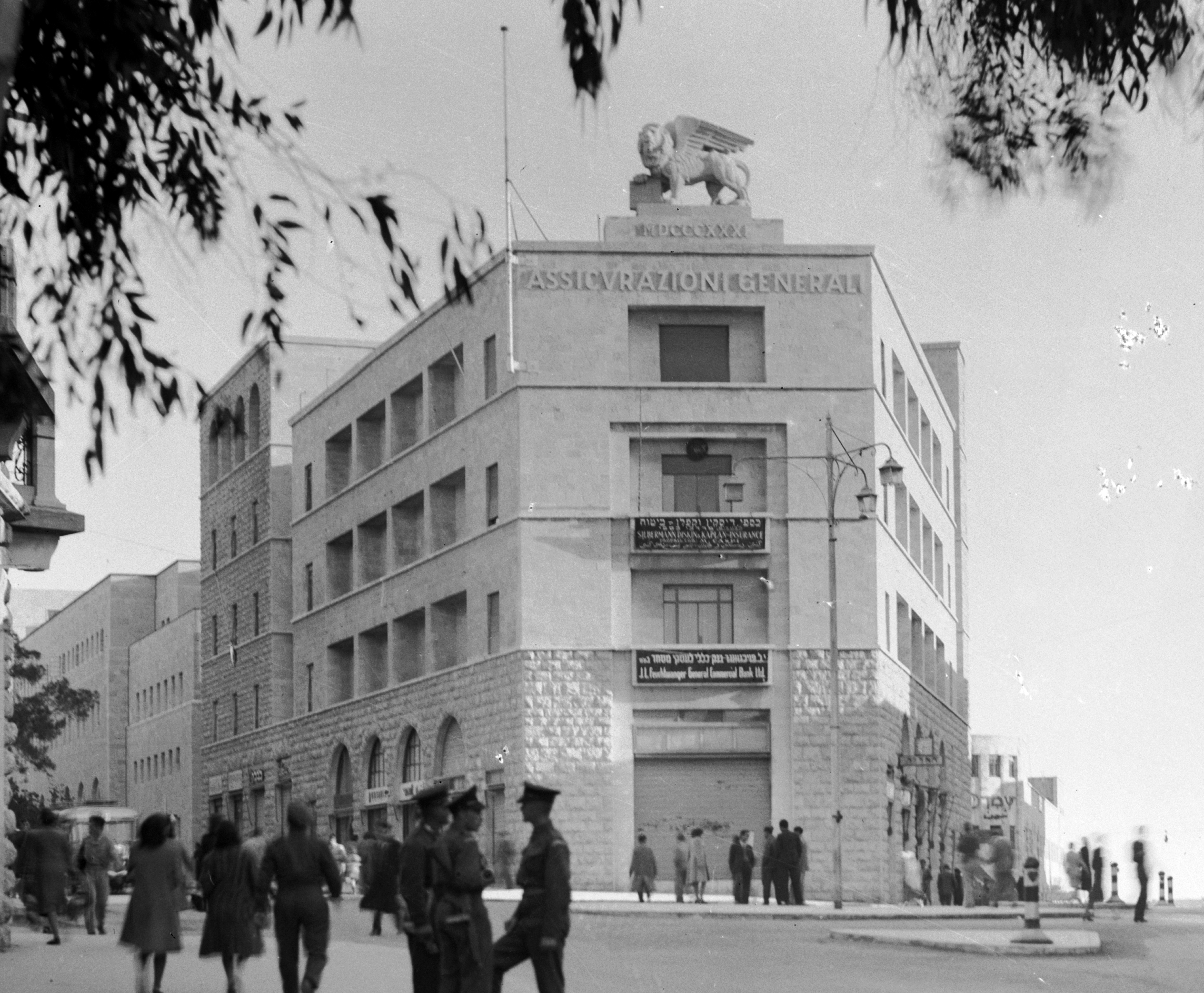 Newer Jerusalem. Cazzicazione General [i.e., Assicurazioni Generali].